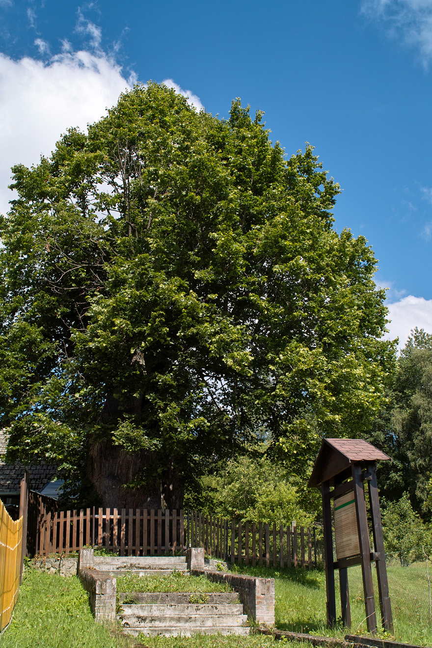 lime tree of Jan Hus, 750 years old tree in Chlistov, Czech Republic